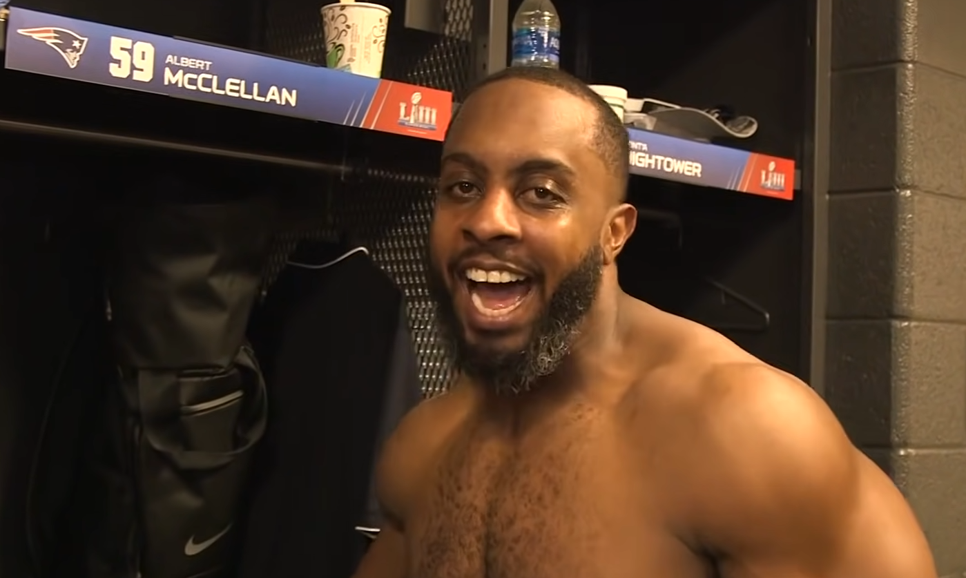 In 2019